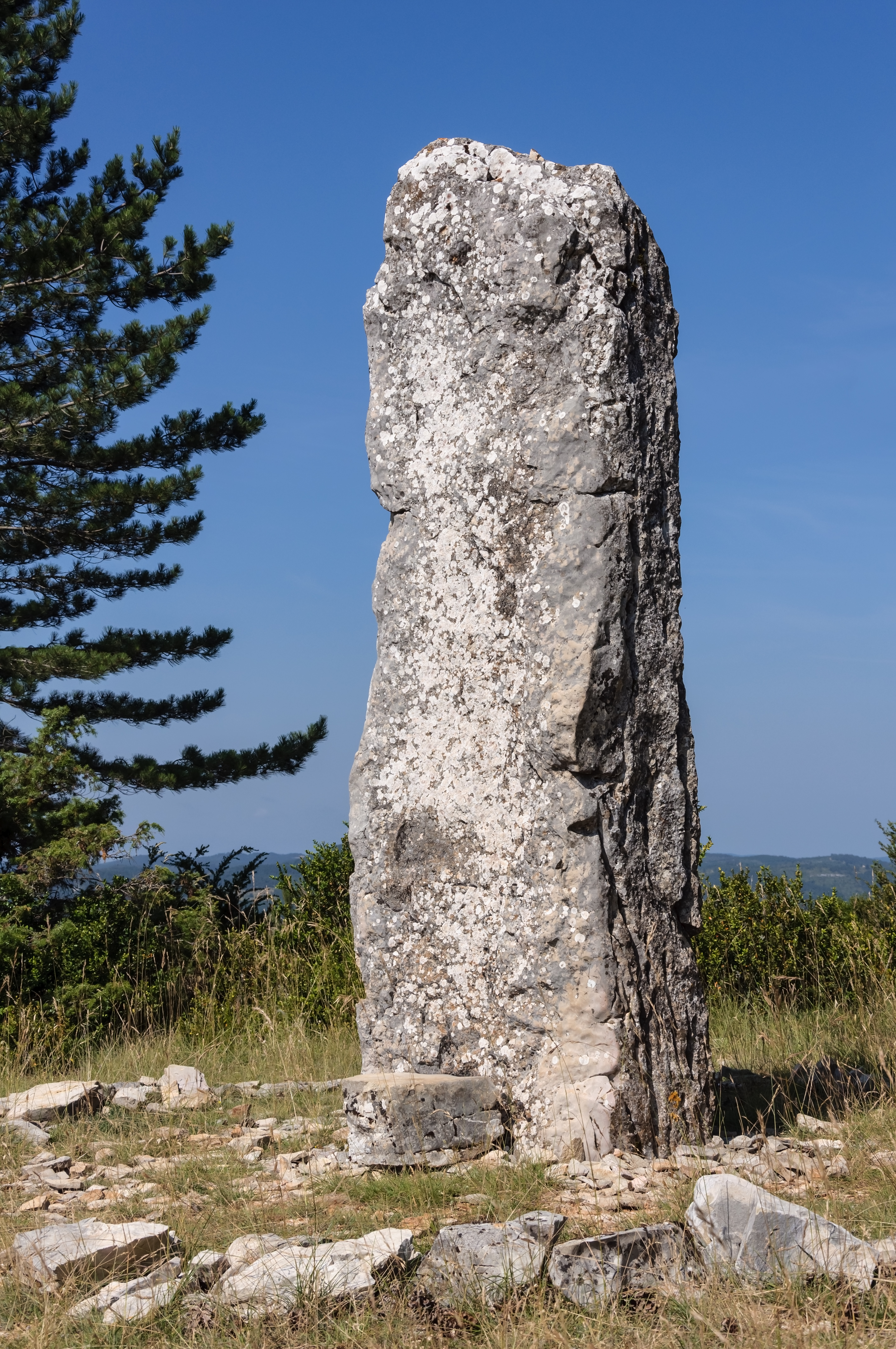 Menhir du Bac on Causse de Sauveterre (Sainte-Enimie, Lozère, France). Size: 350 x 100 x 40 cm.